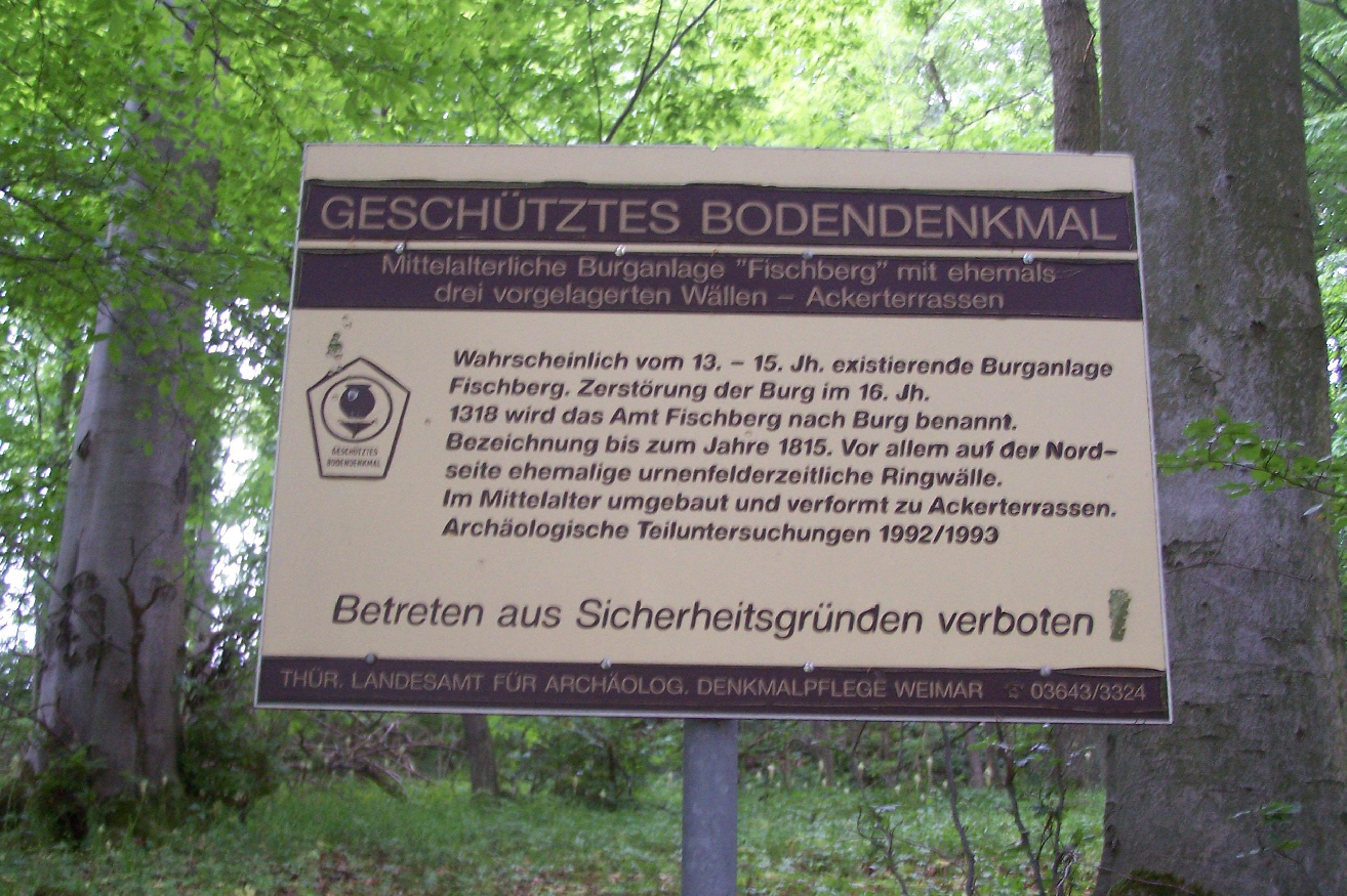 About Fischberg Castle.